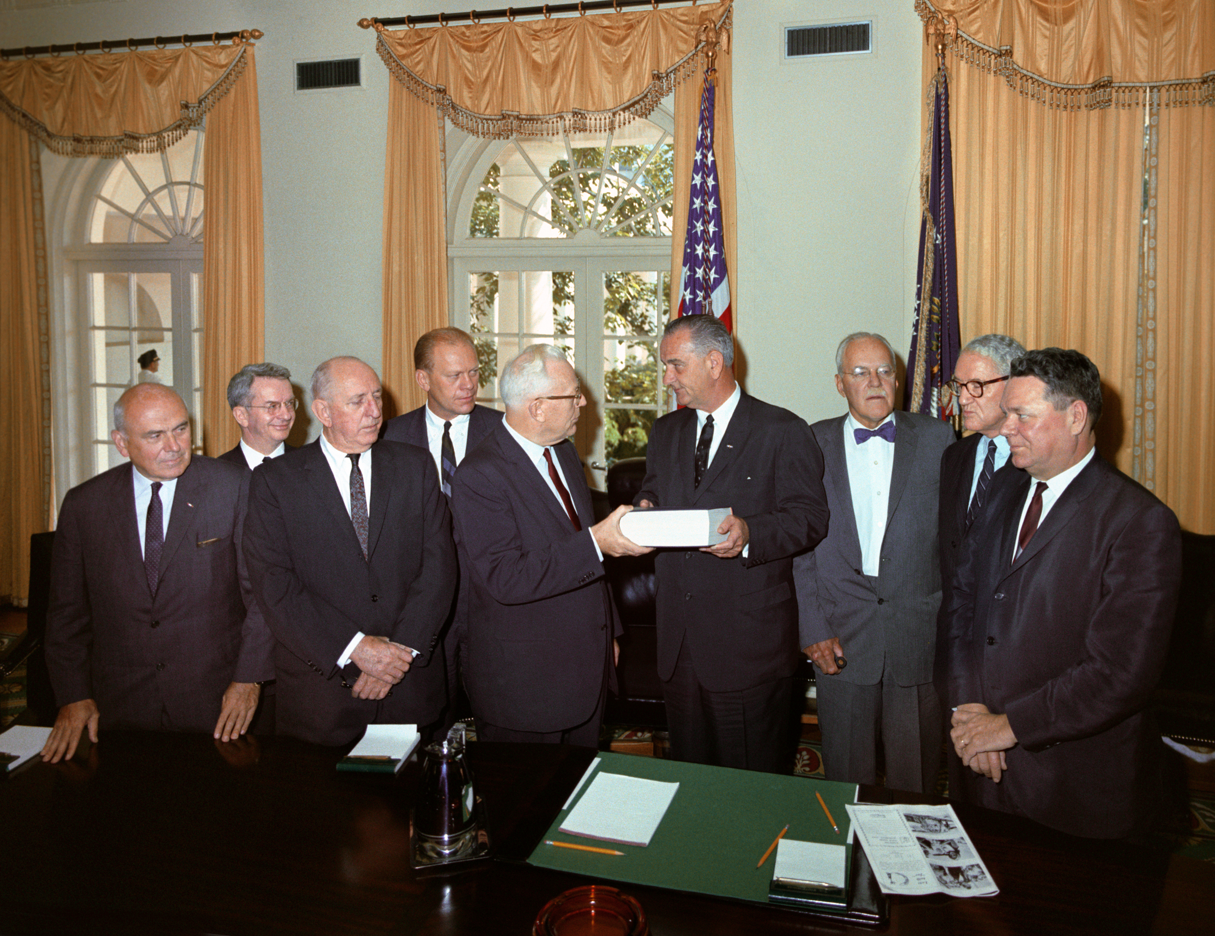 Members of the Warren Commission present their report on the assassination of President John F. Kennedy to President Lyndon Johnson. Cabinet Room, White House, Washington DC. L-R: John McCloy, J. Lee Rankin (General Counsel), Senator Richard Russell, Congressman Gerald Ford, Chief Justice Earl Warren, President Lyndon B. Johnson, Allen Dulles, Senator John Sherman Cooper, and Congressman Hale Boggs